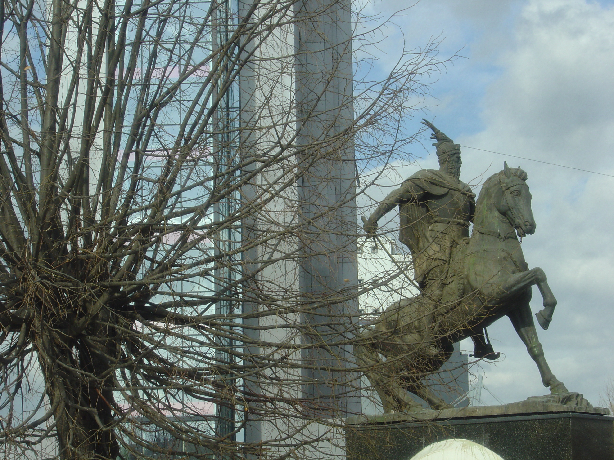 Monument to Skanderberg in Pristina, Kosovo